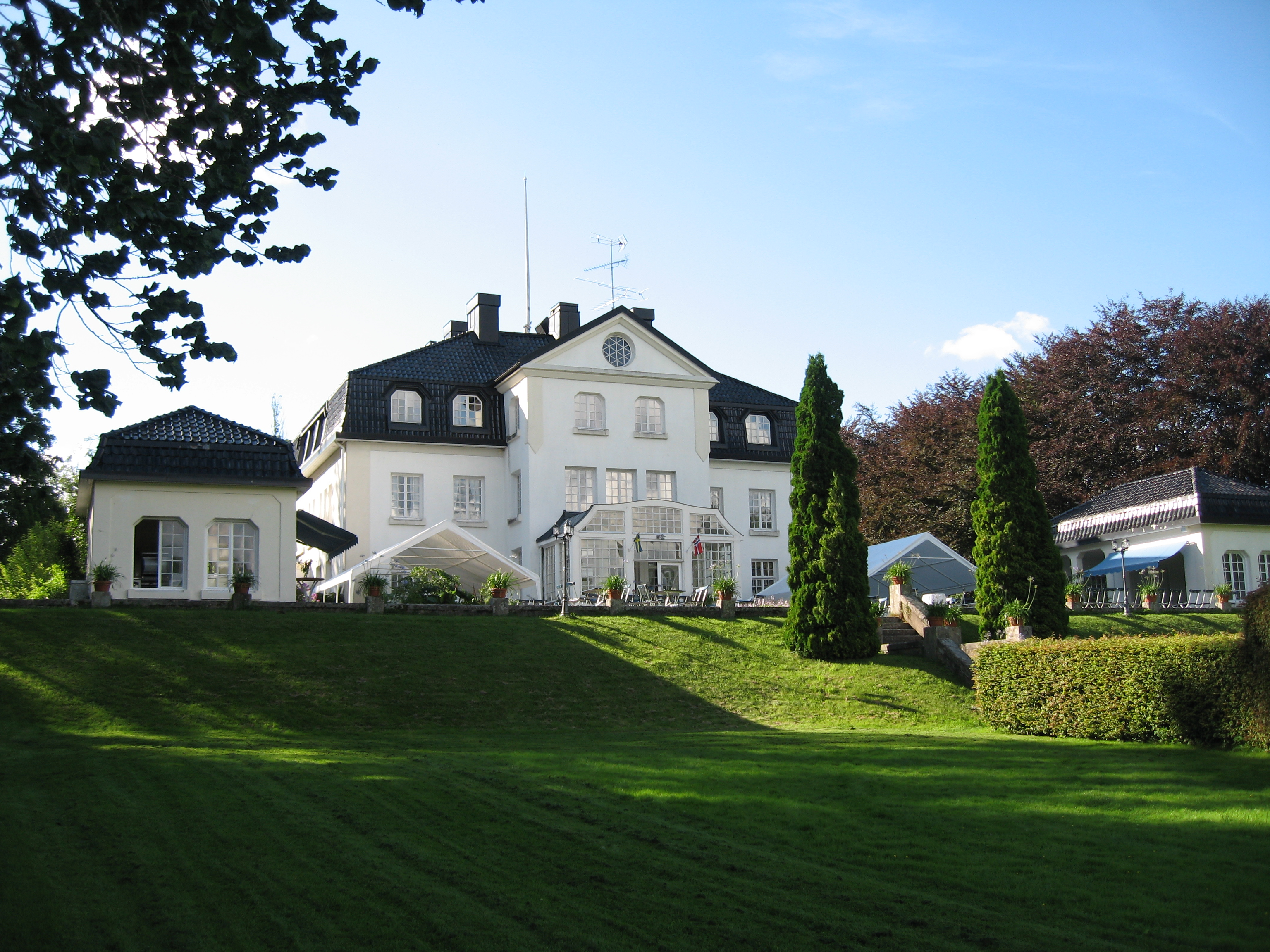 Baldersnäs mansion in Dalsland, Sweden.